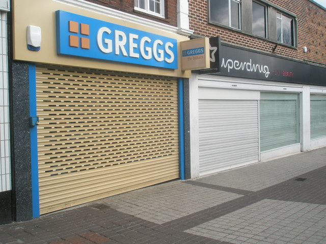 Shops closed for the day in Waterlooville Shopping Precinct